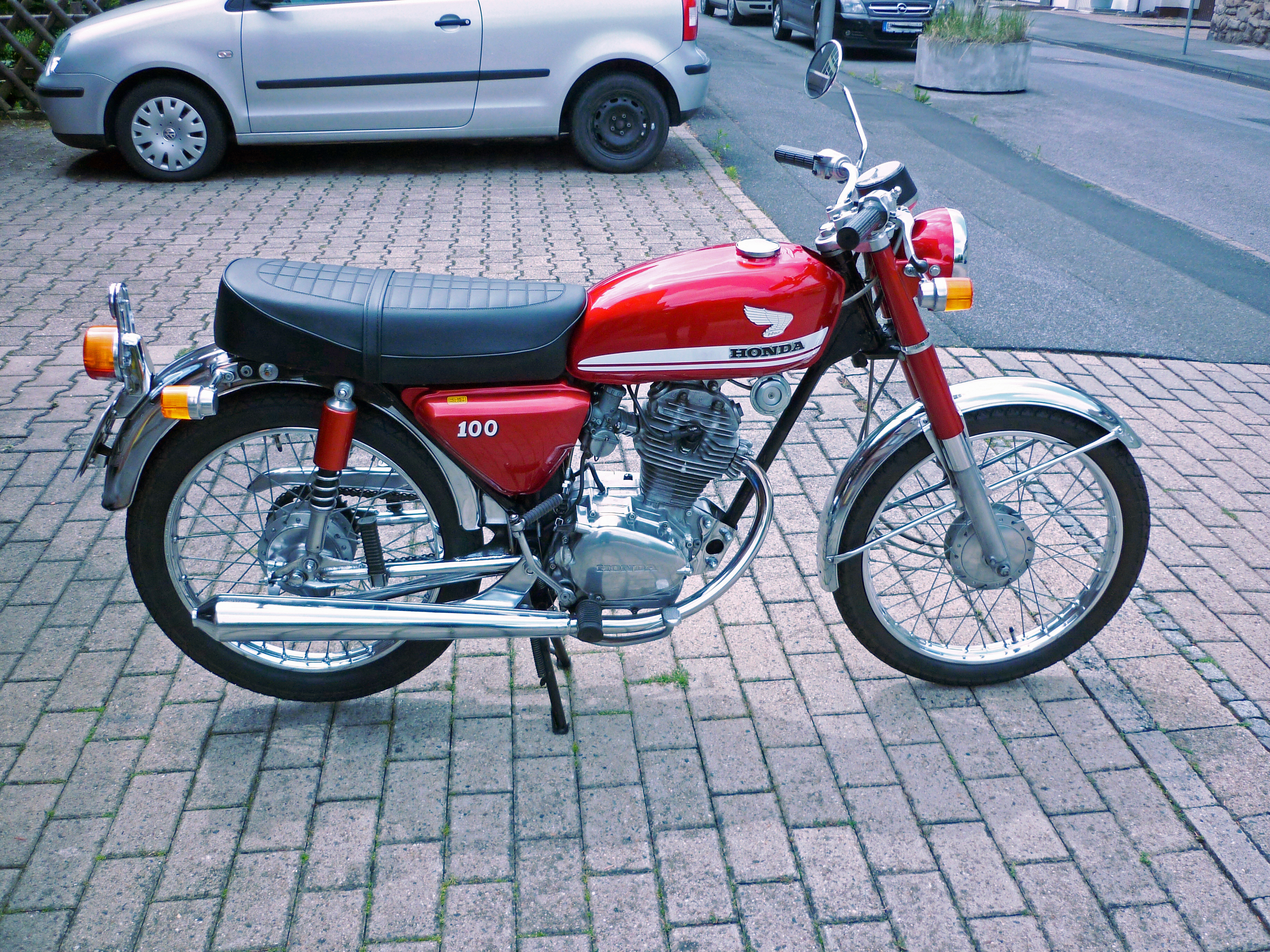 1970 Honda CB 100, right side